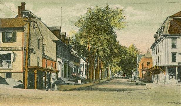 School Street from the Square, Hillsborough Bridge, NH; from a 1907 postcard.